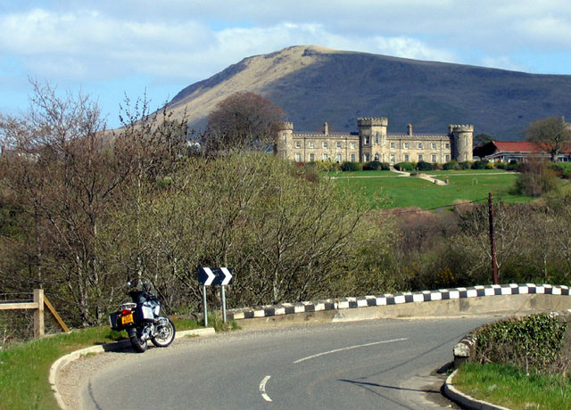 Dungiven Castle and Benbradagh Mountain A view of the castle missed by those who travel through Dungiven from Derry to Belfast - they get a glimpse of the rear only. Taken from Turmeel Bridge on the road from Dungiven towards Banagher Church